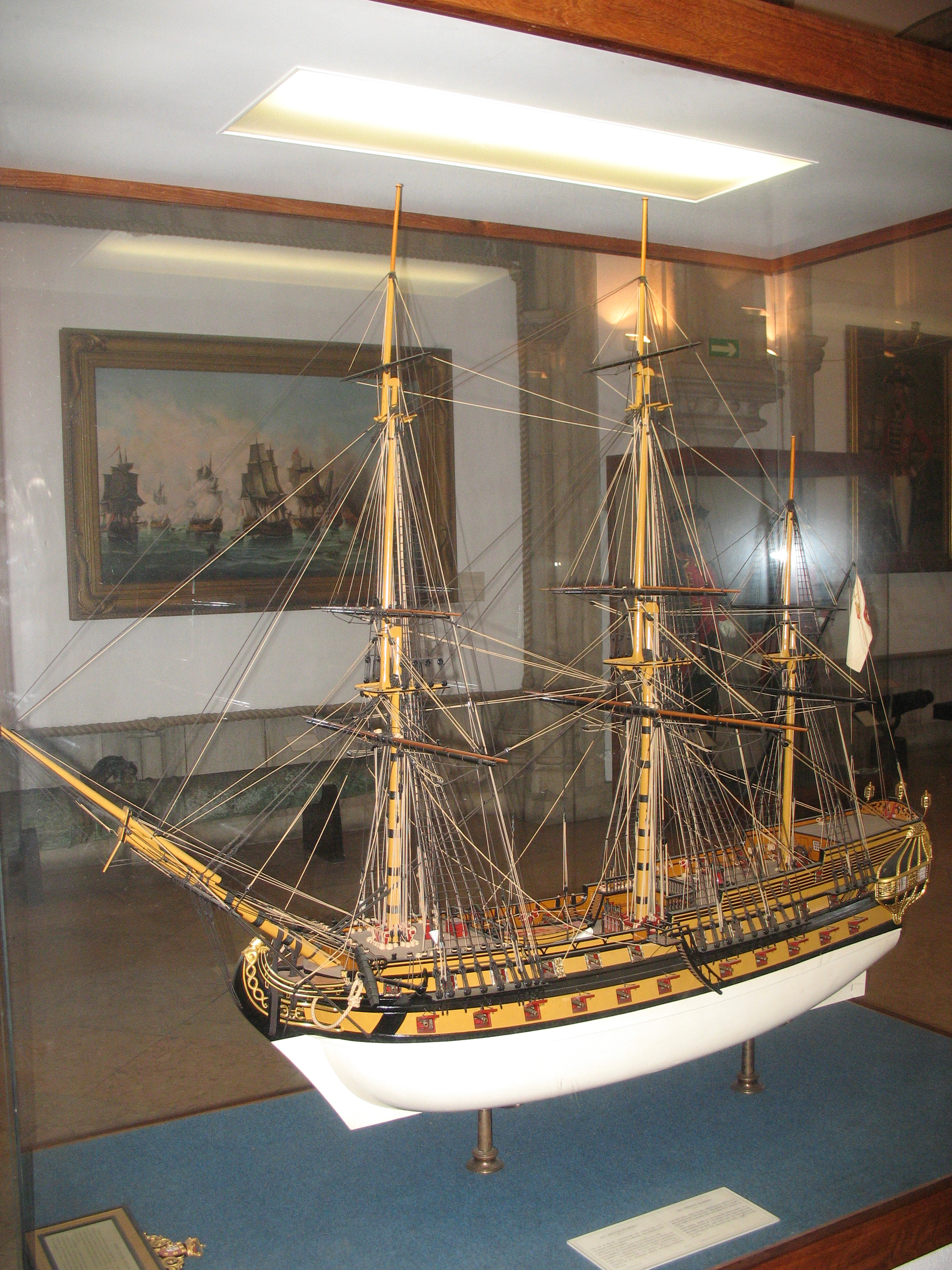 Photograph by Nct